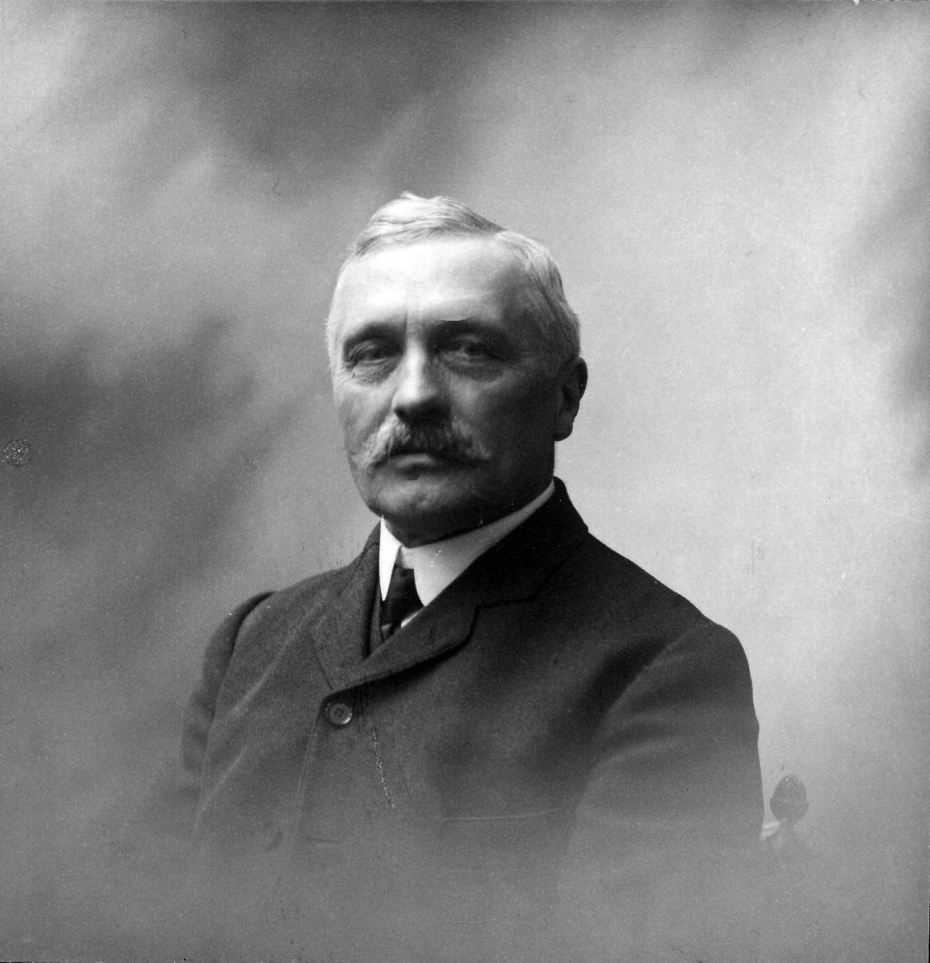 Armand Walfard